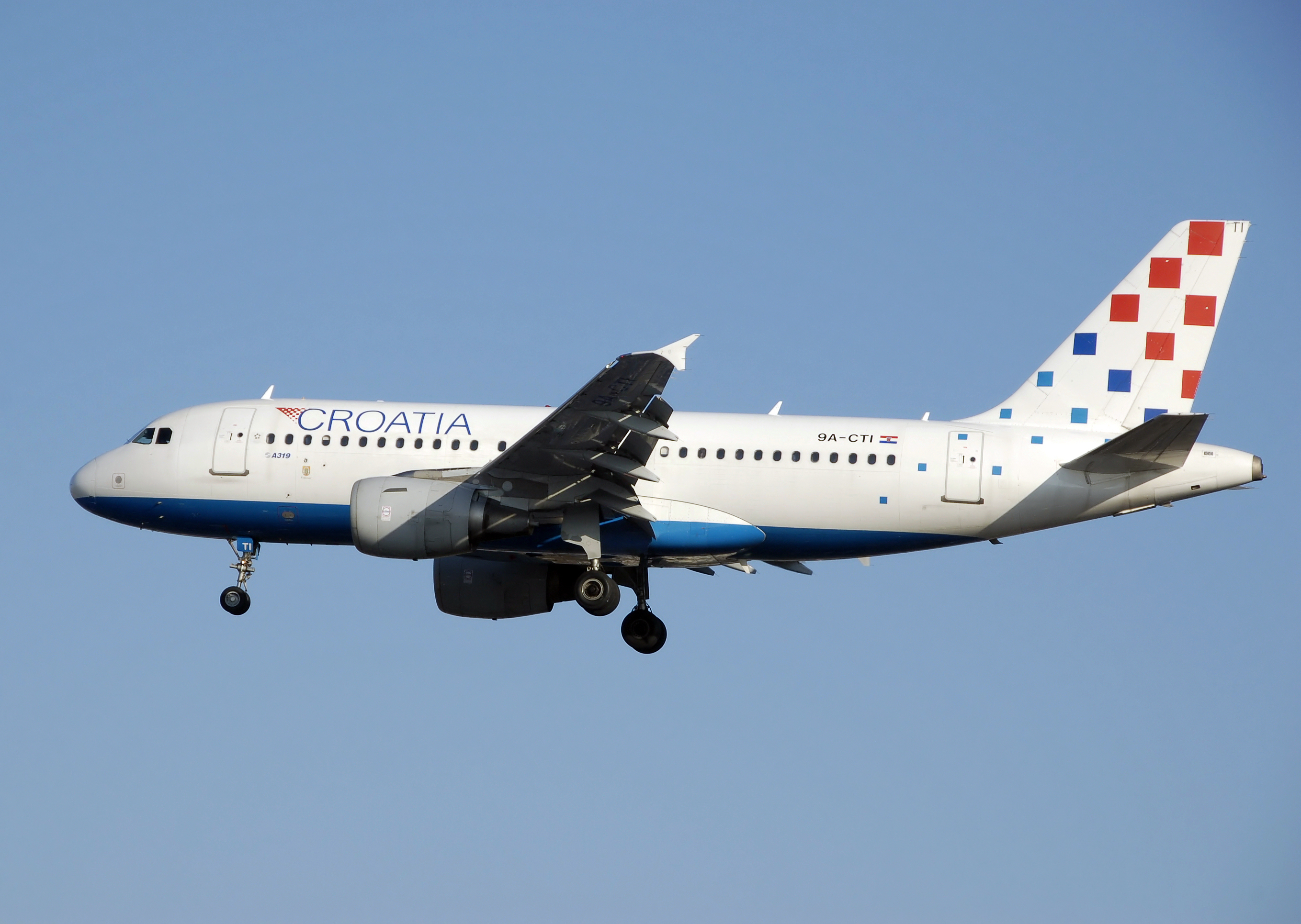 Croatia Airlines Airbus A319-100 (9A-CTI) landing at London Heathrow Airport, England.